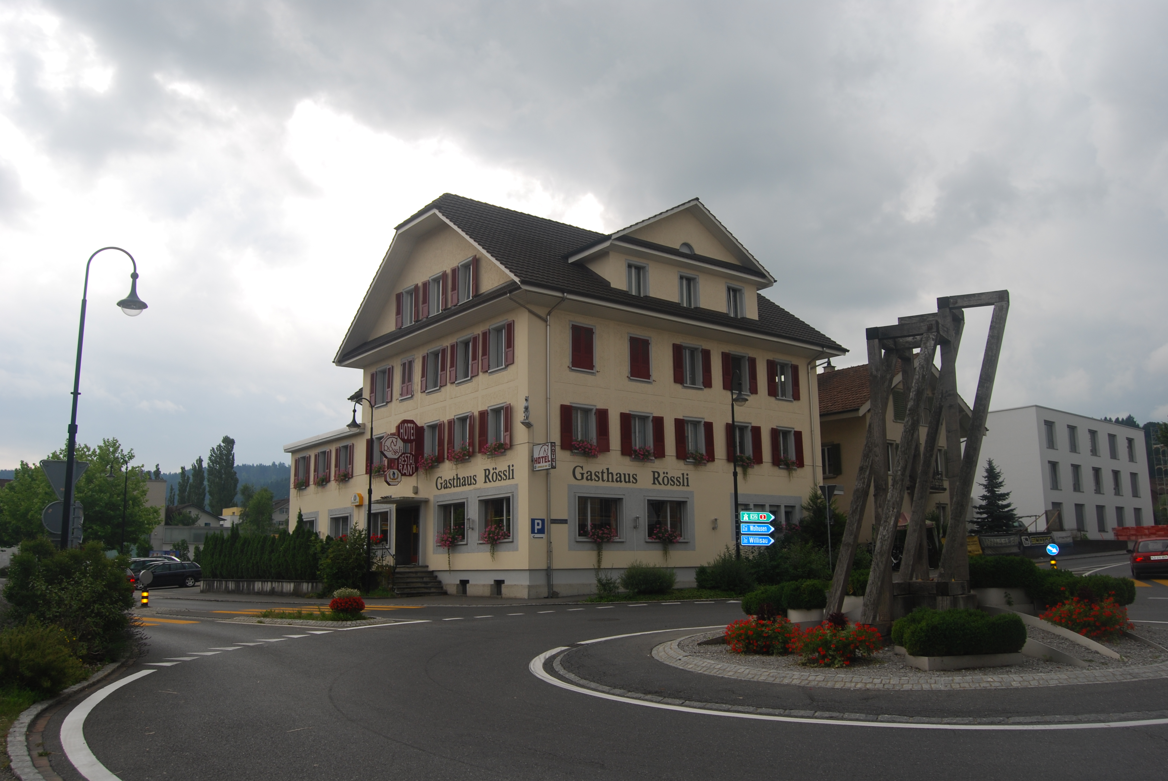 Restaurant Rössli and roundabout at Dagmersellen, canton of Luzern, Switzerland